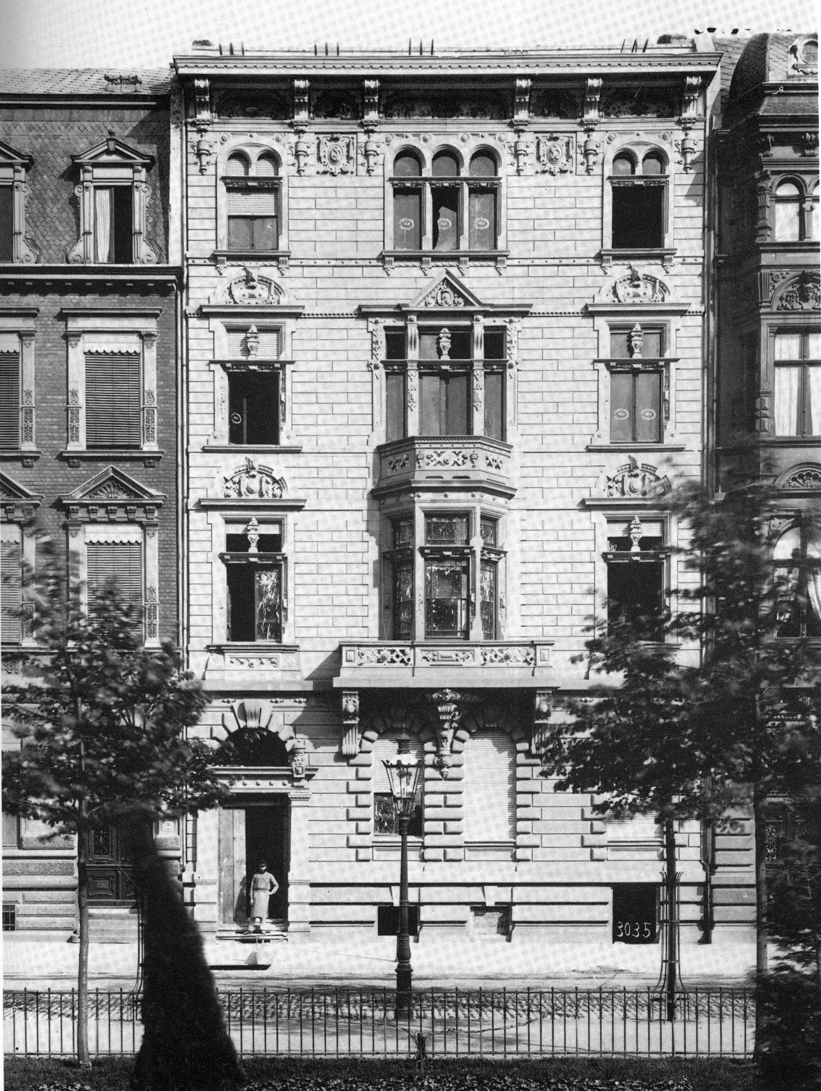 Kaiser_Wilhelmring_Nr._38_in Köln erbaut von_A._Nöcker.jpg